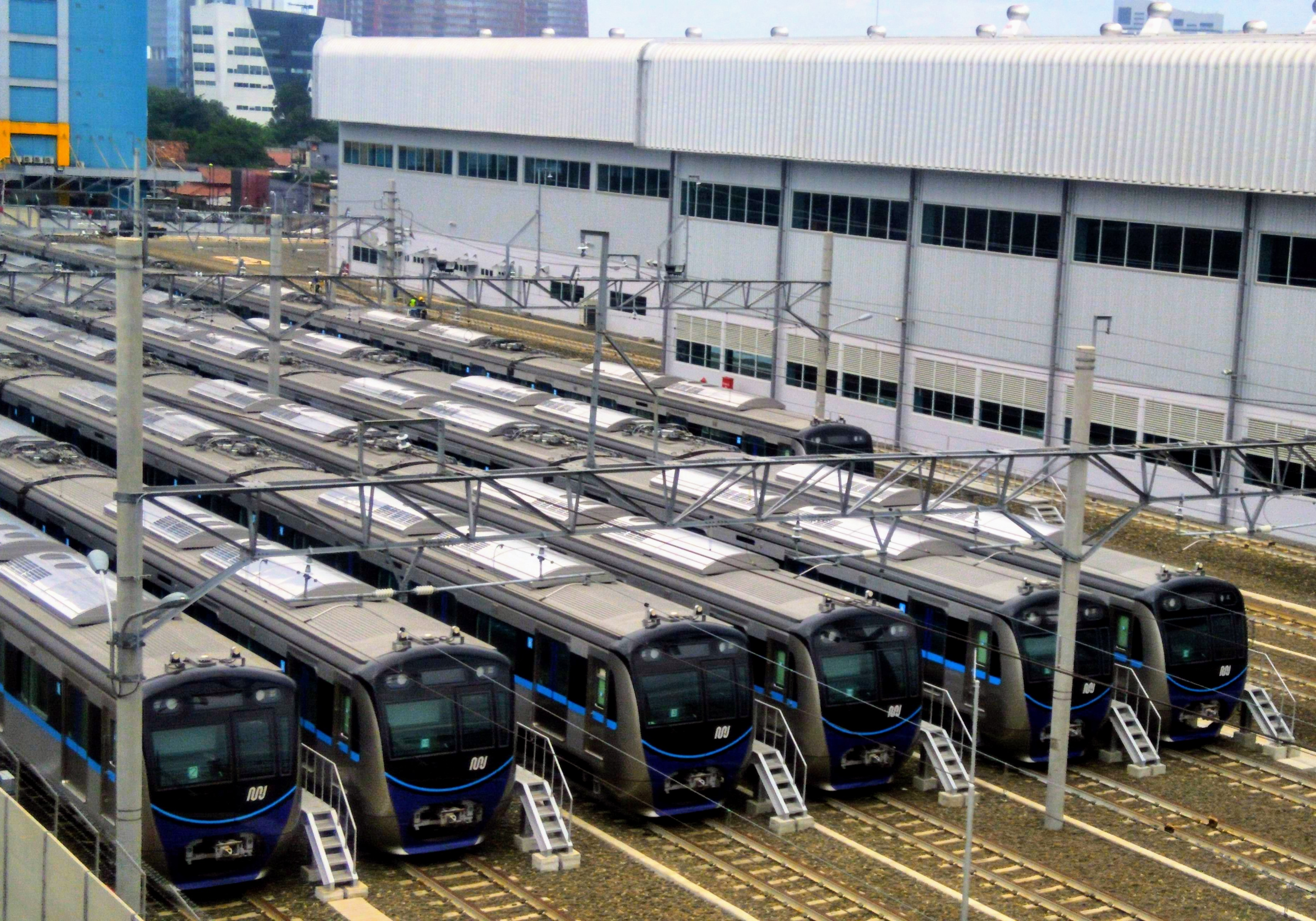 Jakarta MRT trains at Lebak Bulus Depot